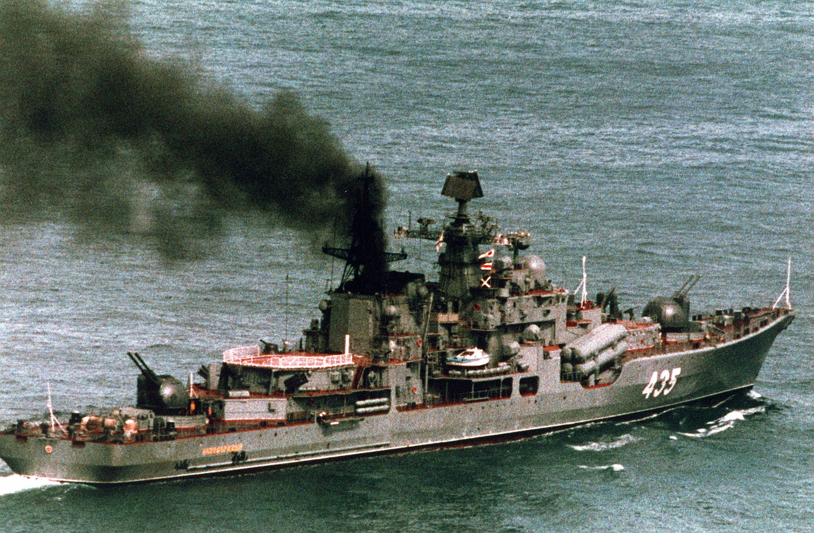 A starboard quarter view of the Russian Project 956 "Sarych"(Sovremenny class) destroyer Bezuderzhnyy underway.